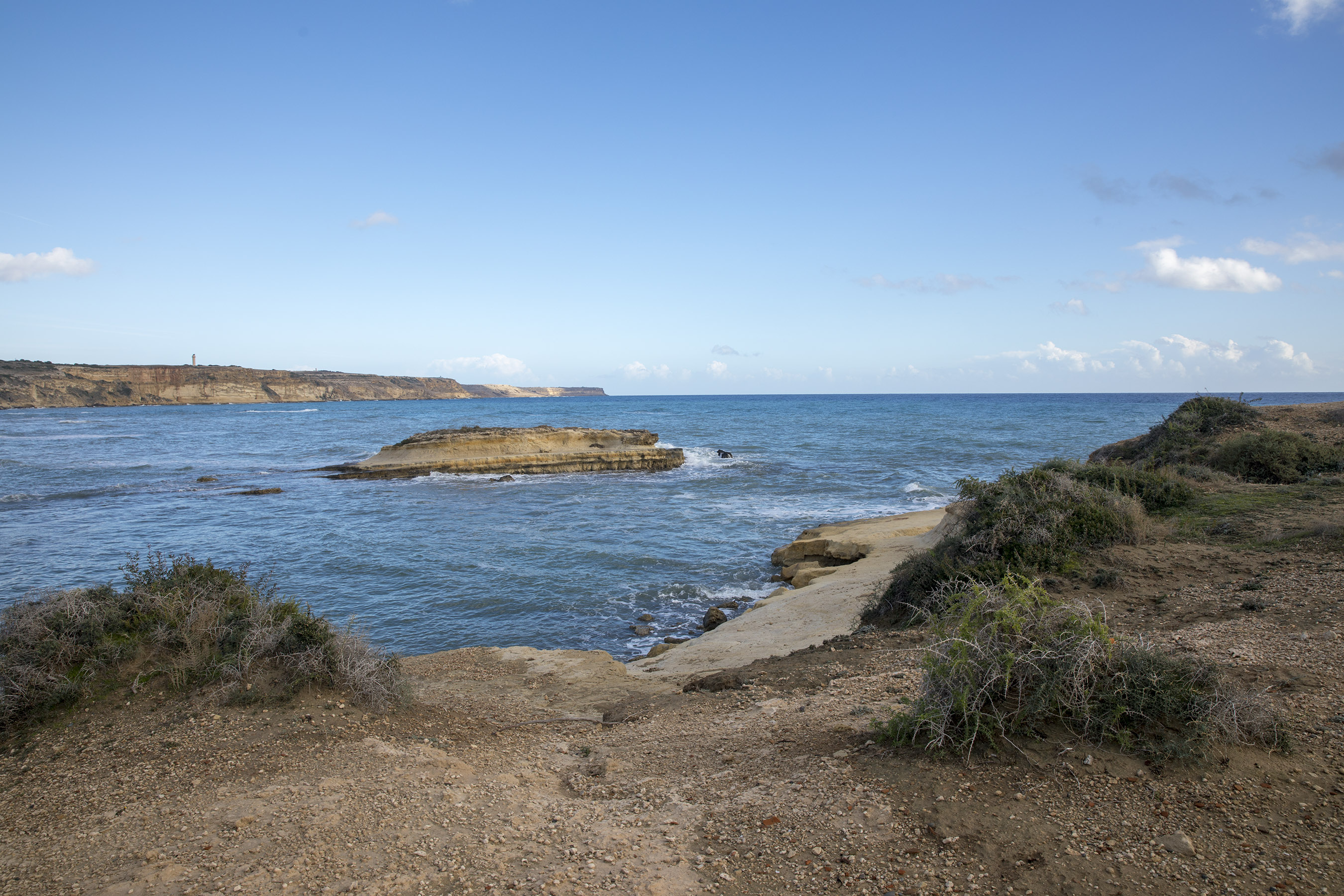 Dreamer's Bay looking east (closer)